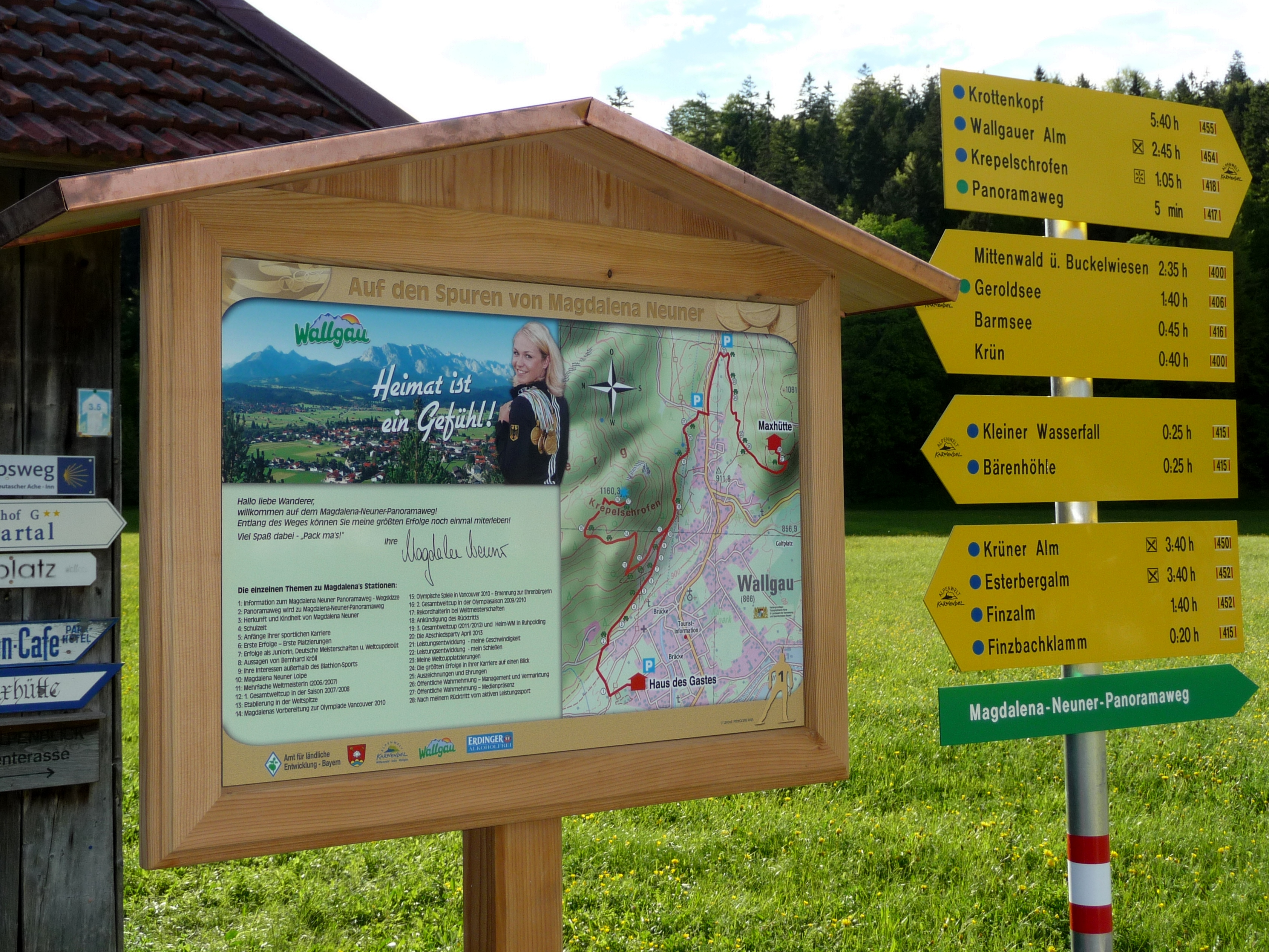 Start of "Magdalena-Neuner-Panoramaweg" near "Haus des Gastes", Wallgau, Germany